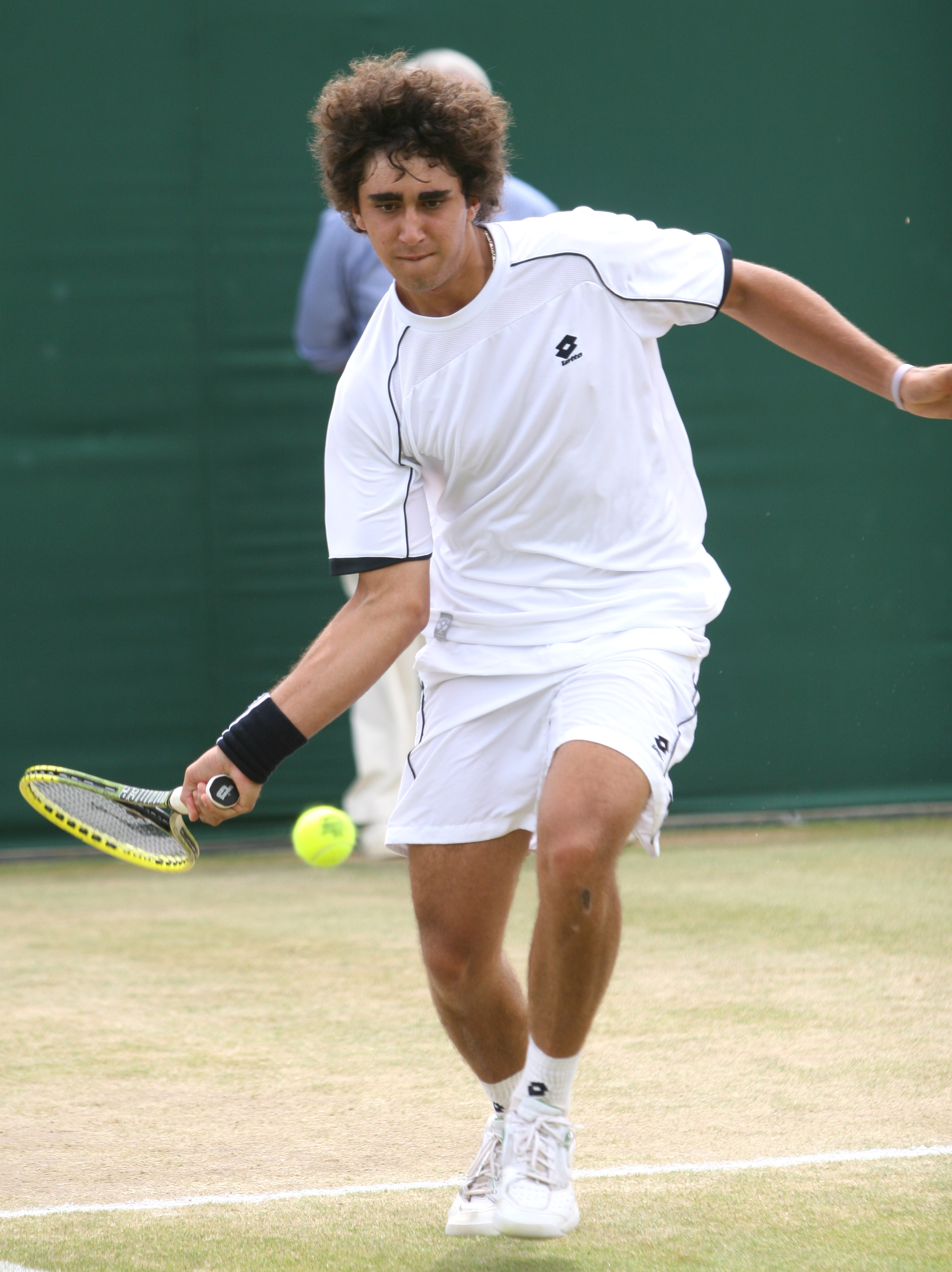 Facundo Arguello playing in his boys singles quarterfinal match against Denis Kudla at Wimbledon on 1st July 2010